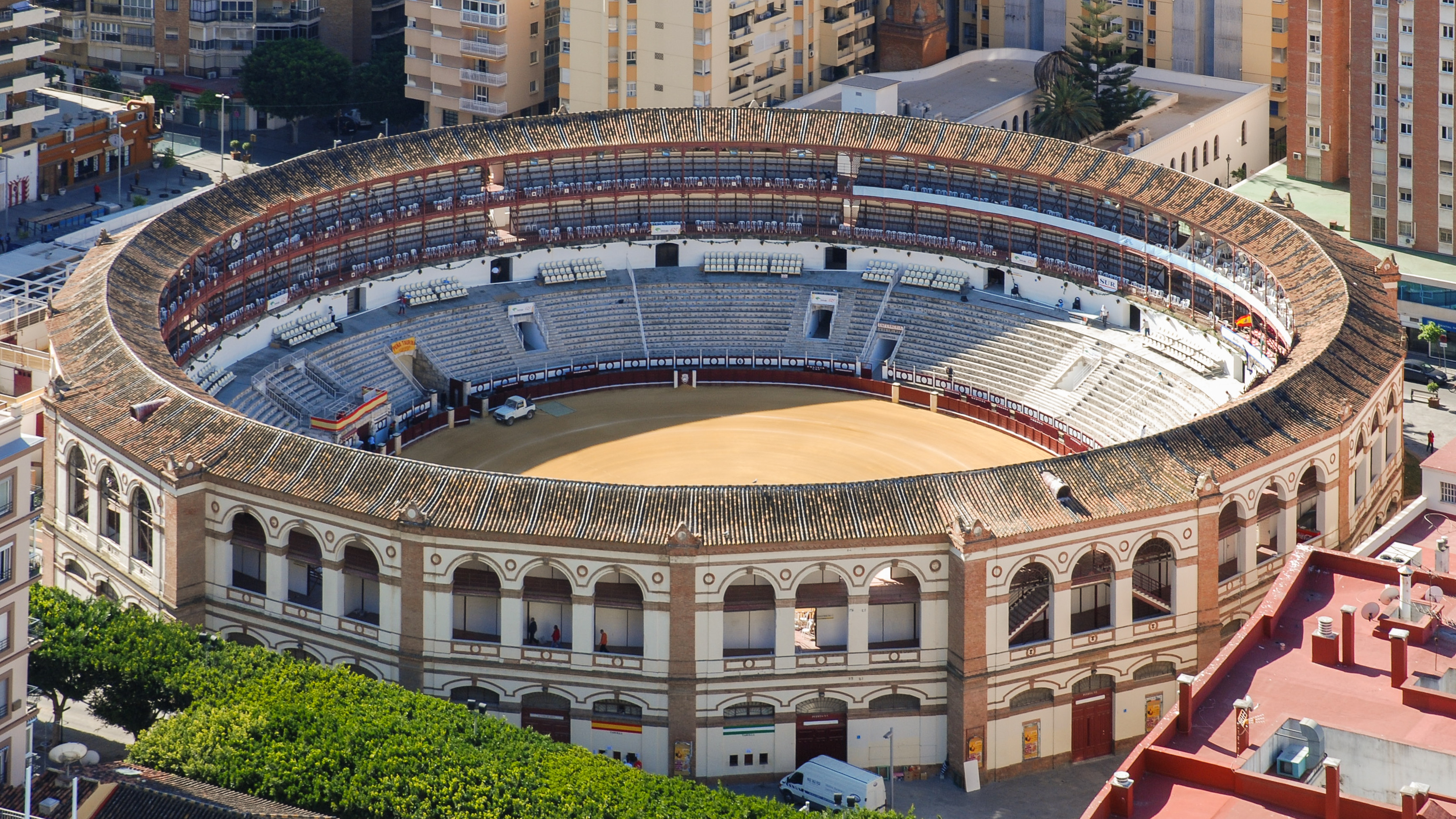 The bullring of Málaga, Plaza de toros de La Malagueta, as seen from north